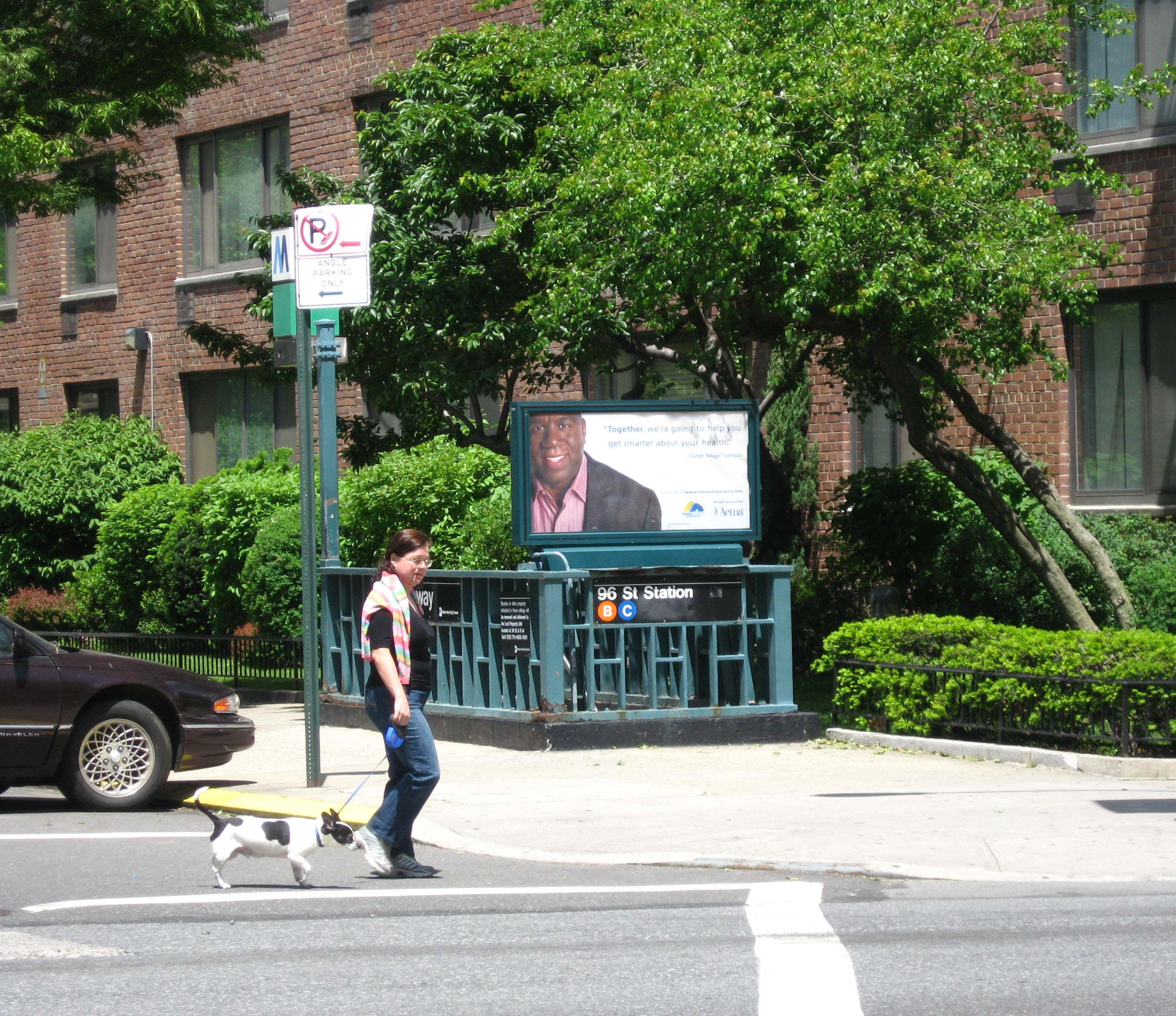 Looking northwest across Central Park West and 97th Street at en:96th Street (IND Eighth Avenue Line) on a sunny late morning.